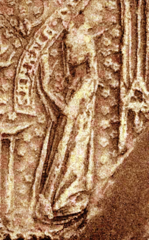 Queen Haelwig of Sweden, as depicted on her royal seal (excerpt)